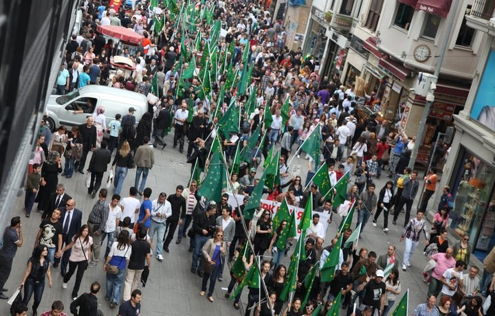 Circassians commemorate the banishment of the Circassians from Russia in Taksim, İstanbul